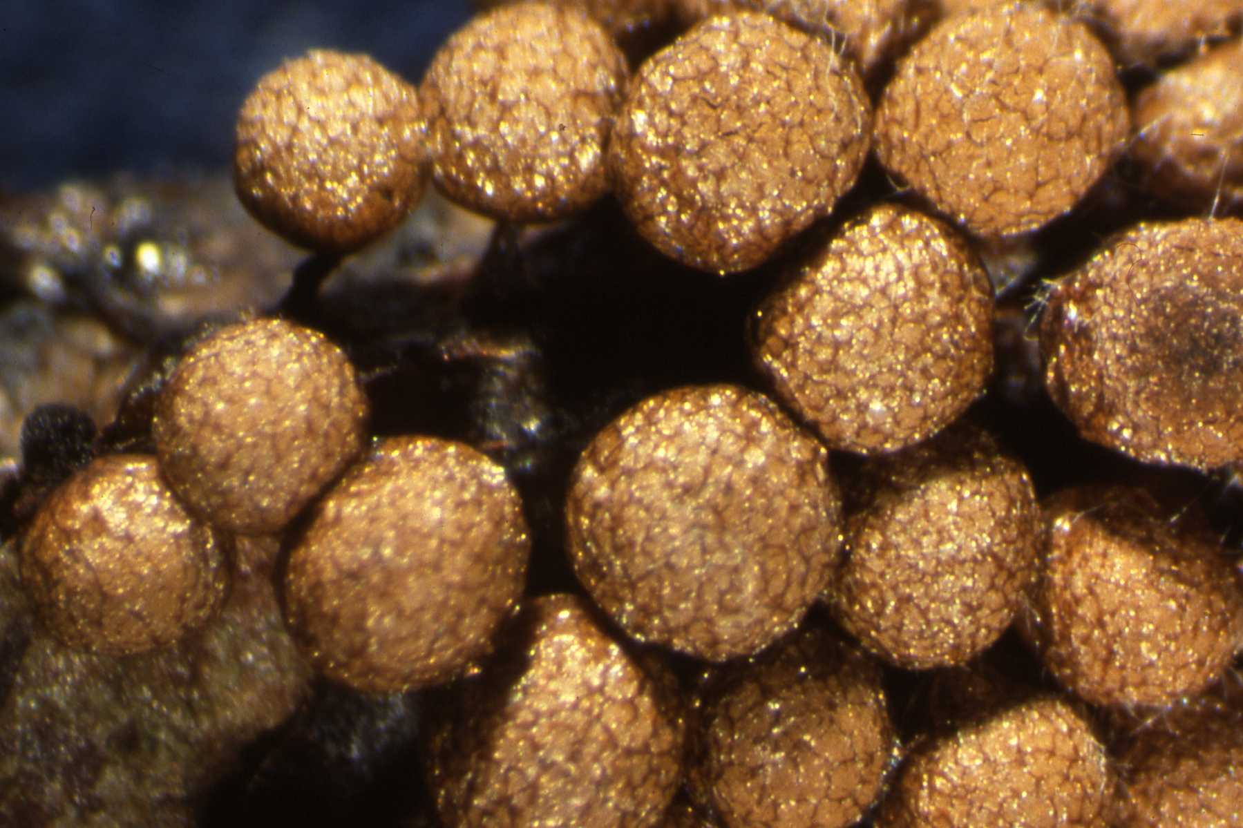 Cribraria argillacea